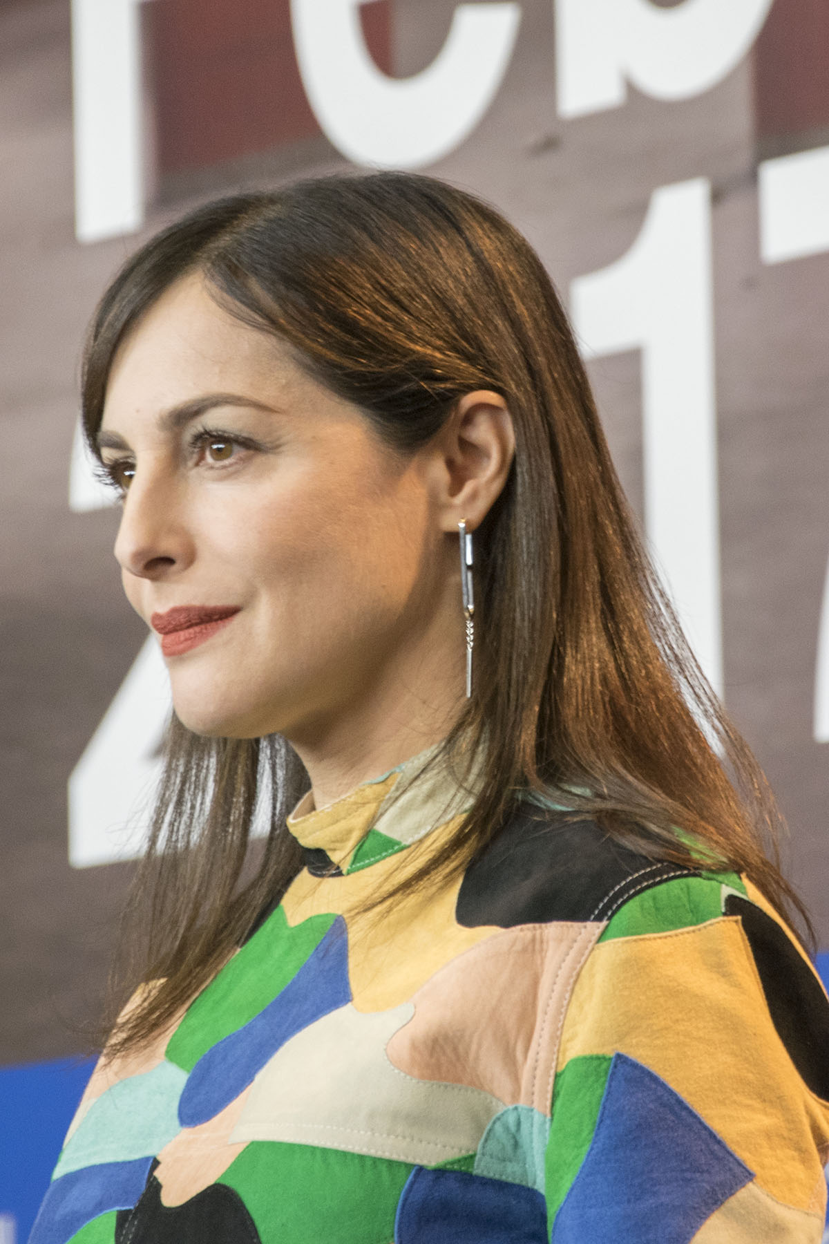 Amira Casar at the press conference of the film Call Me by Your Name at the 2017 Berlin International Film Festival